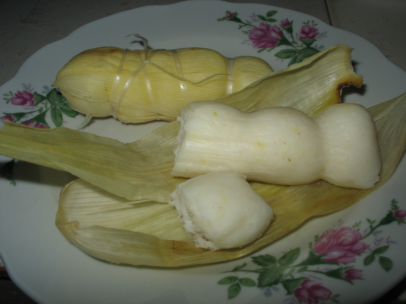 Bollo limpio